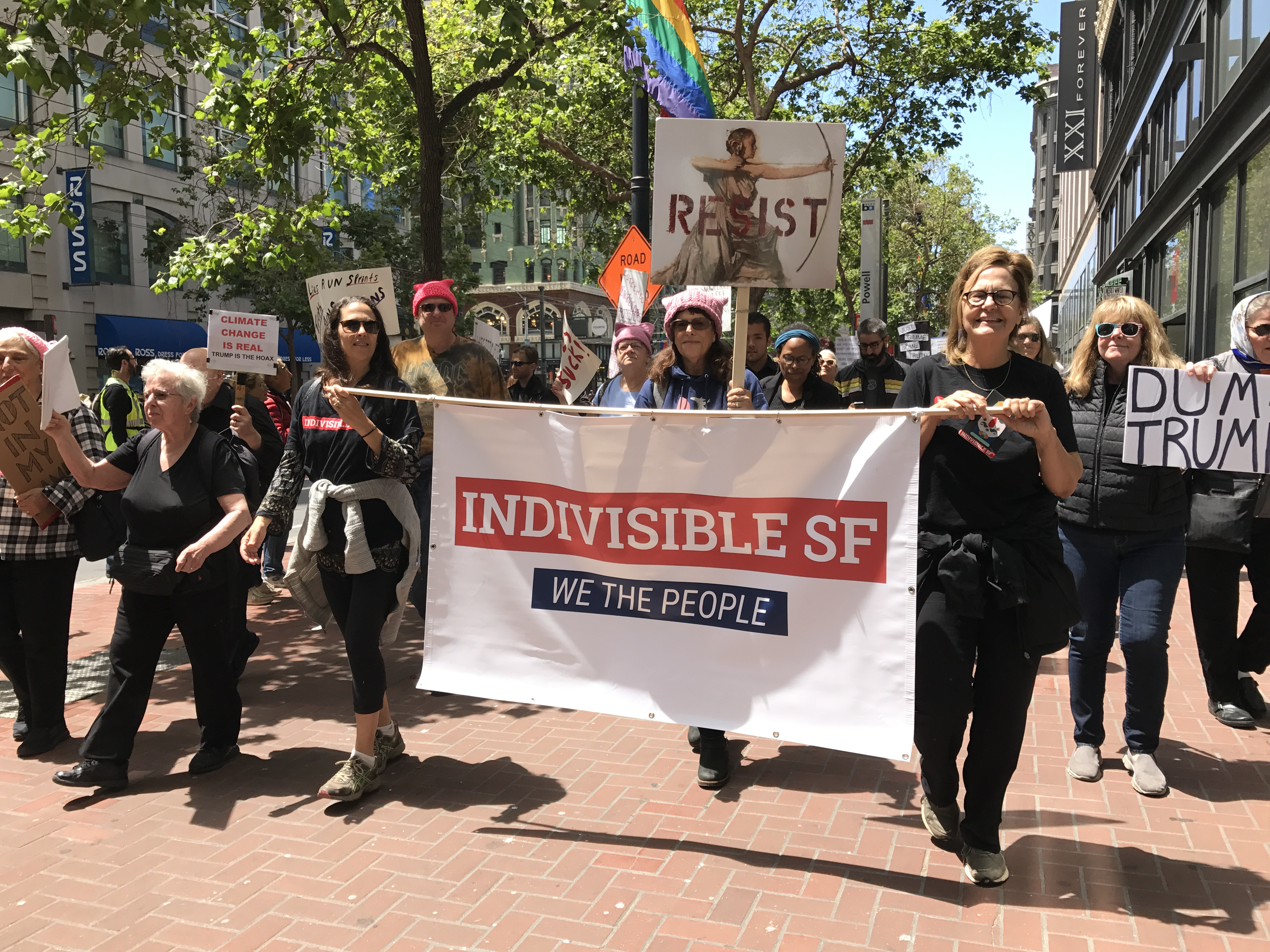 Flashmob For Truth